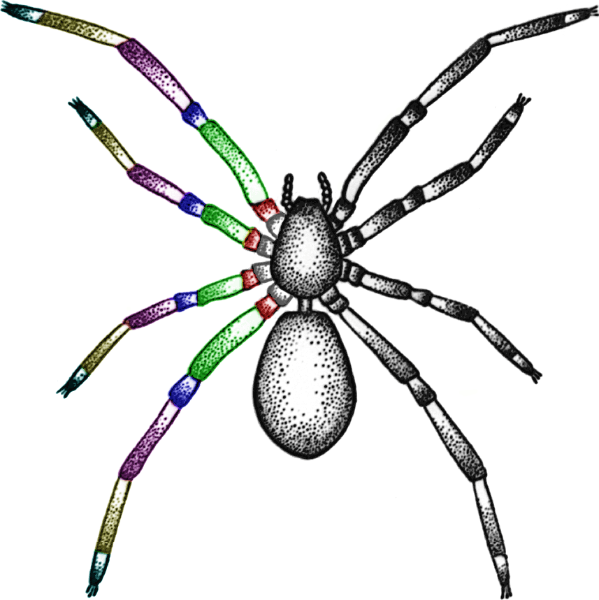 Diagram of a spider, with the leg segments shaded for identification; coxa=grey, trochanter=red, femur=green, patella=blue, tibia=purple, metatarsus=brown, tarsus=cyan coxa trochanter femur patella tibia metatarsus tarsus